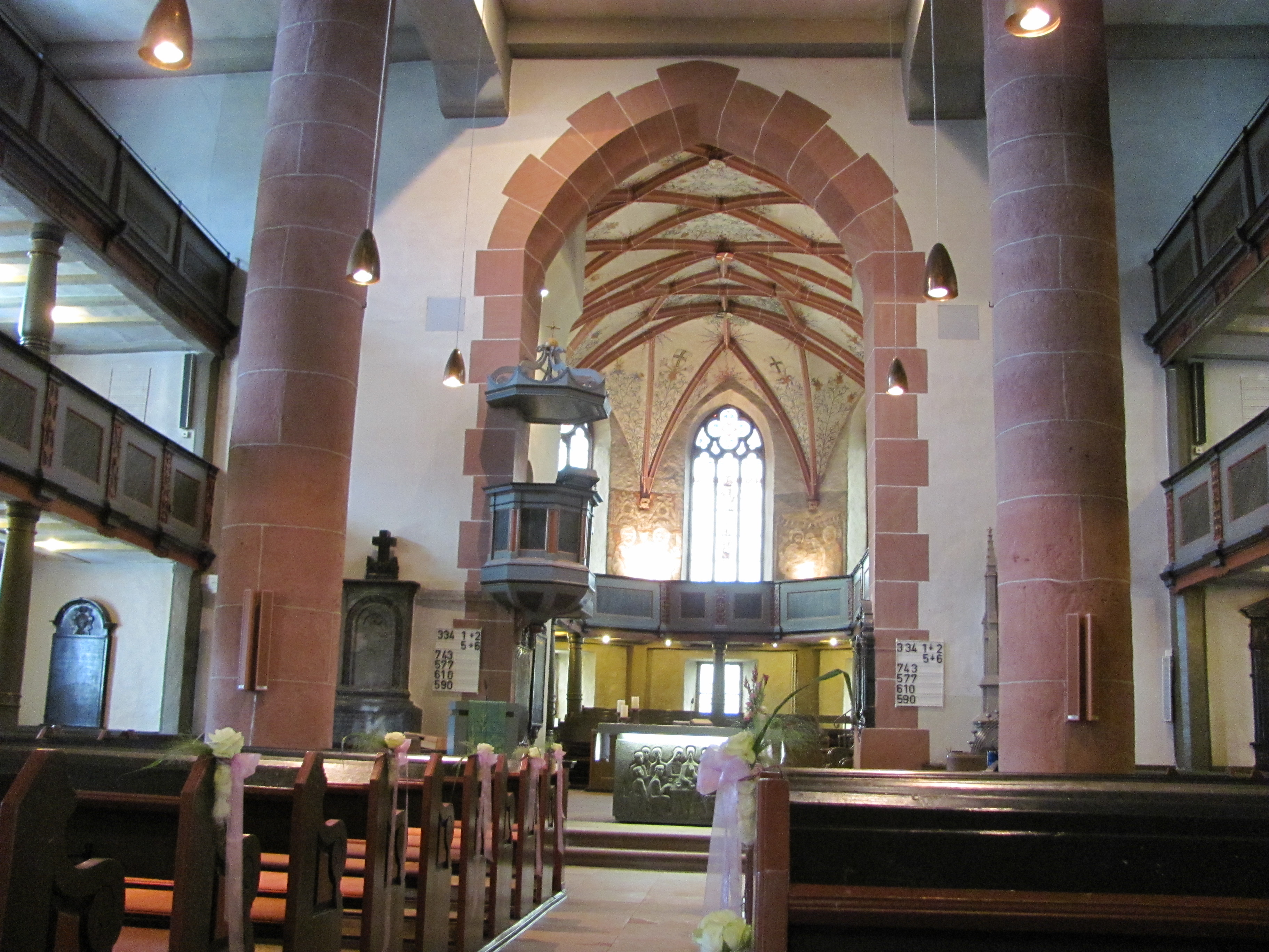 Stadtkirche Herborn, Hessen, Germany